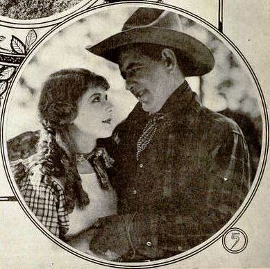 Still from the American western Border Law (1923) with Pauline Curley and Leo D. Maloney, on page 248 of the December 30, 1922 Exhibitor's Trade Review.